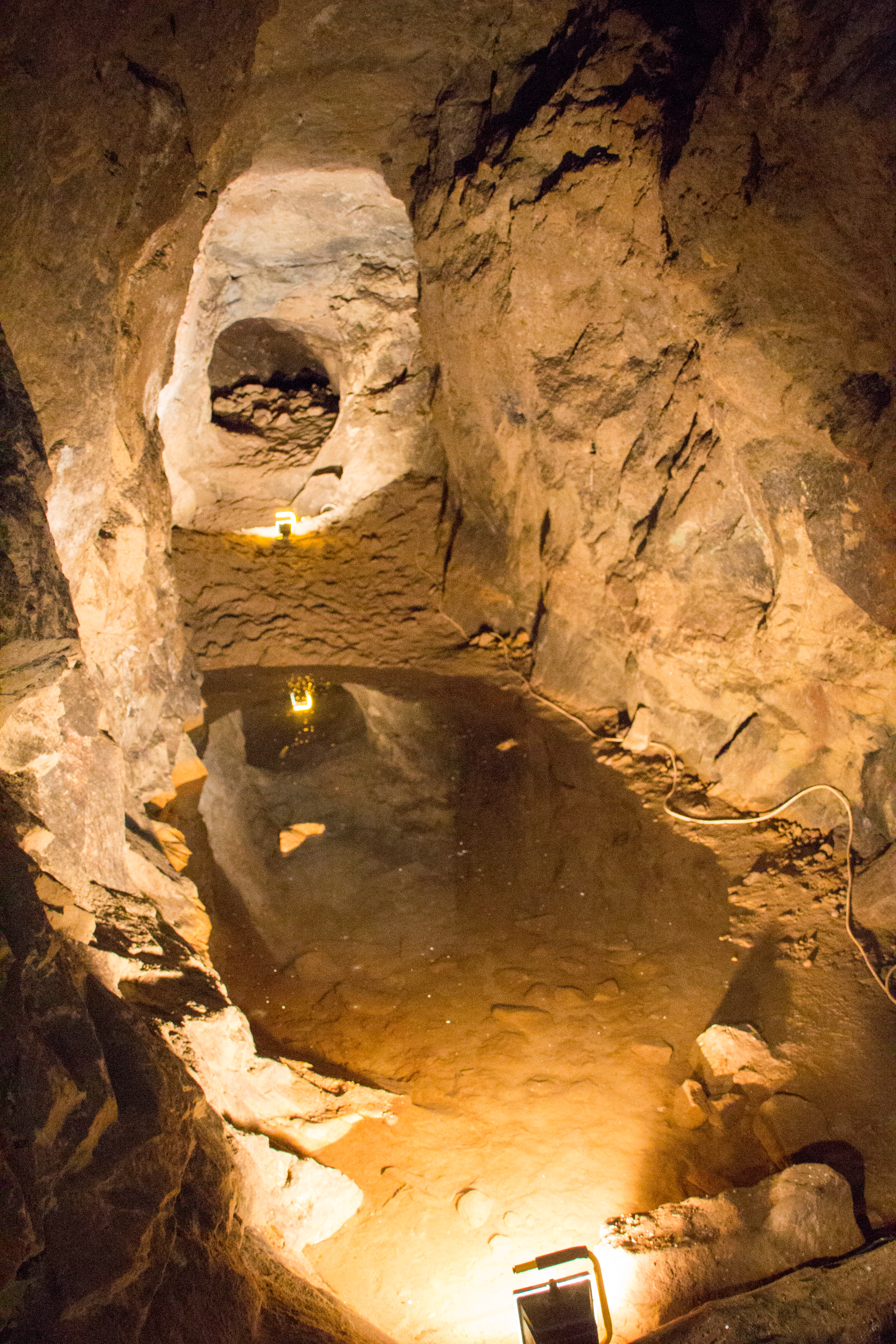 Wood Mine, Alderley Edge Mines, United Kingdom